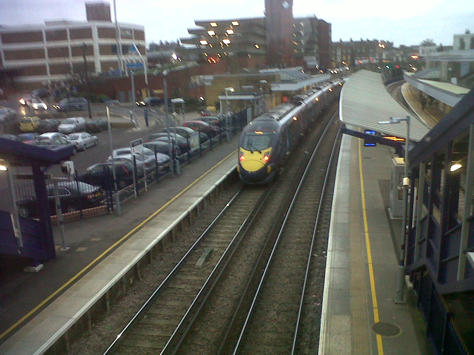 A London St Pancras to Faversham class 395 high speed train arrives at Platform 2 Gravesend